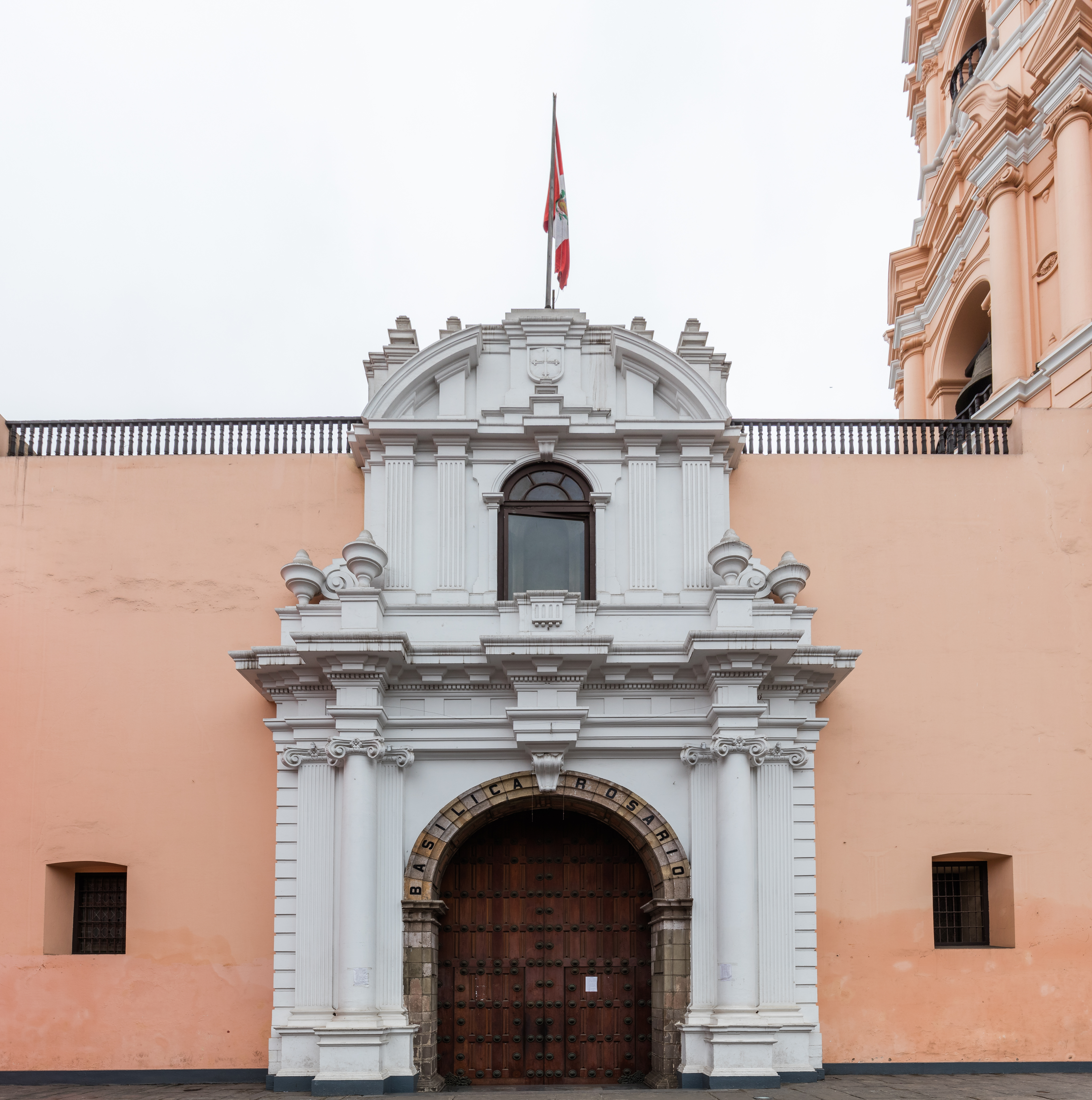 Church of St Domingo, Lima, Peru